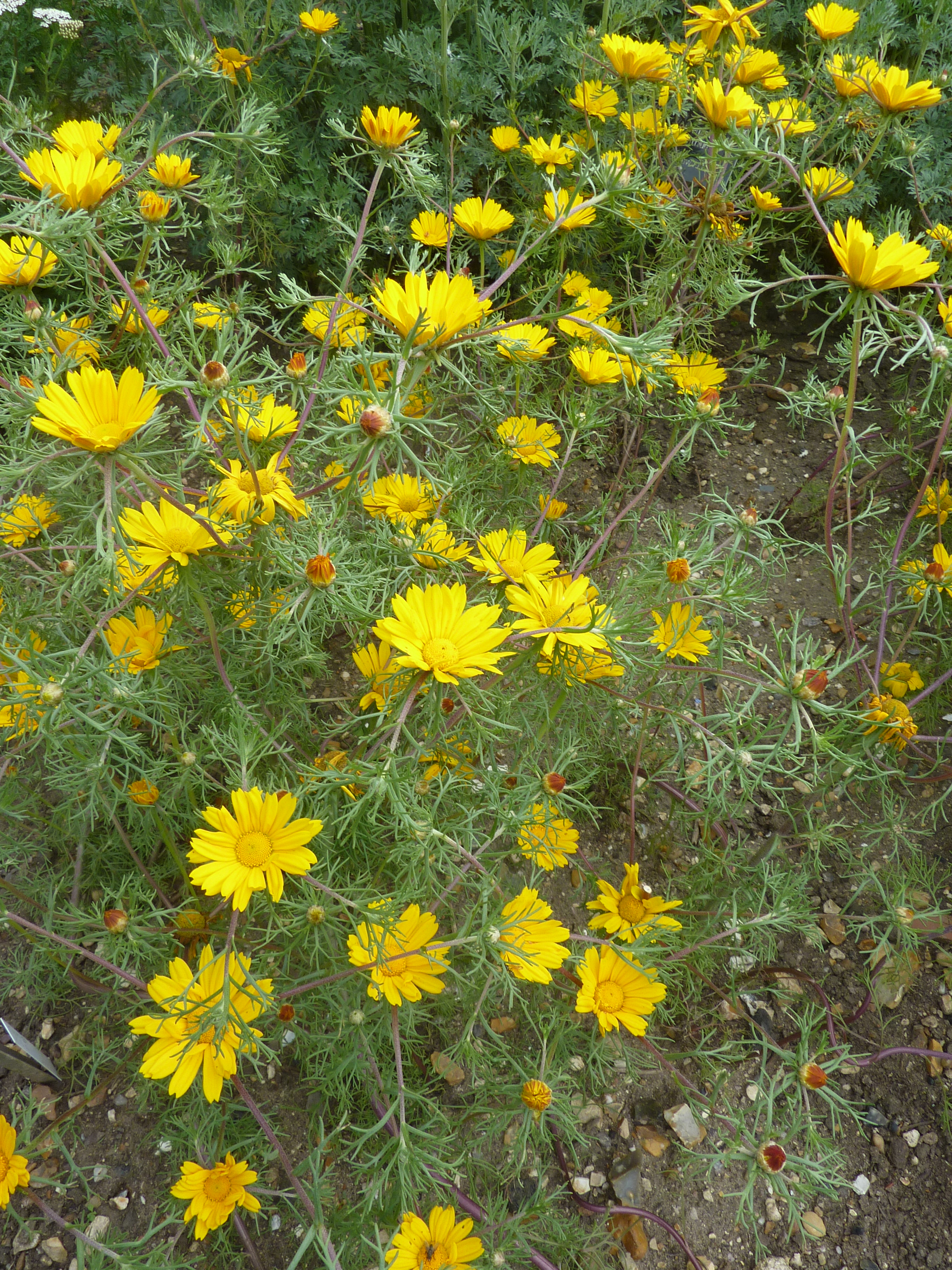 Taken in the Cambridge University Botanic Garden